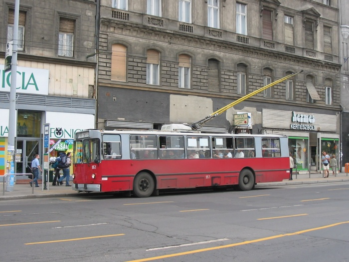 Soviet-built ZIU-9 trolleybus in Budapest